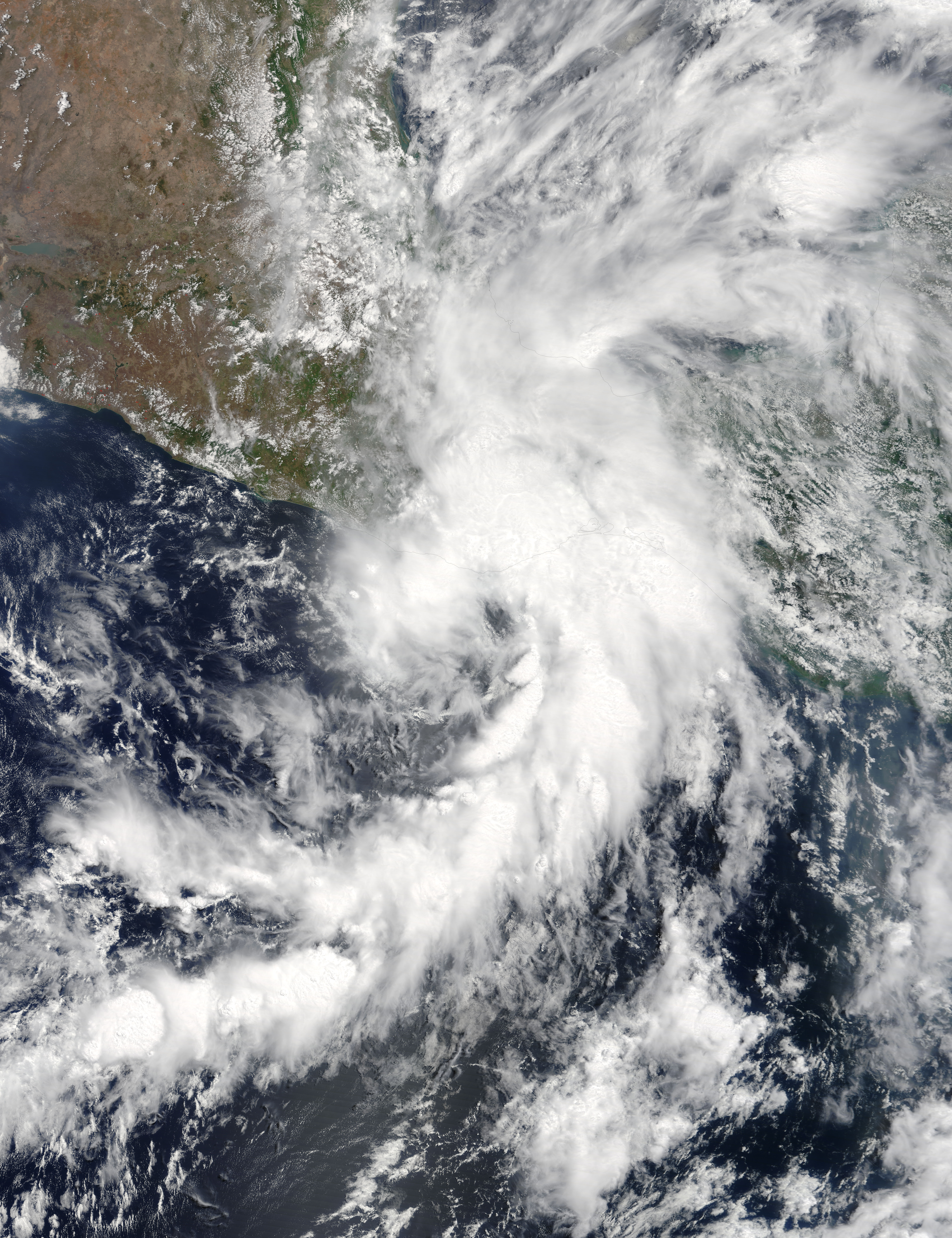 Tropical Storm Beatriz (02E) over Central America